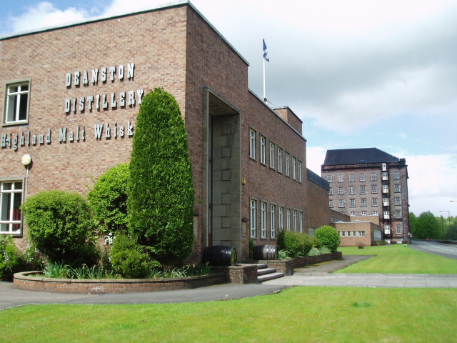 Deanston Distillery incorporates some of the buildings of the former Adelphi Cotton Mill, founded in 1785 by the Buchanan brothers, apprentices of Richard Arkwright, who invented the "Spinning Jenny". Arkwright designed the Adelphi Mill, covering the weaving hall roof with earth and a garden to keep the hall cool. In more recent times, the hall's consistent temperature has been ideal for the storage of maturing whisky.